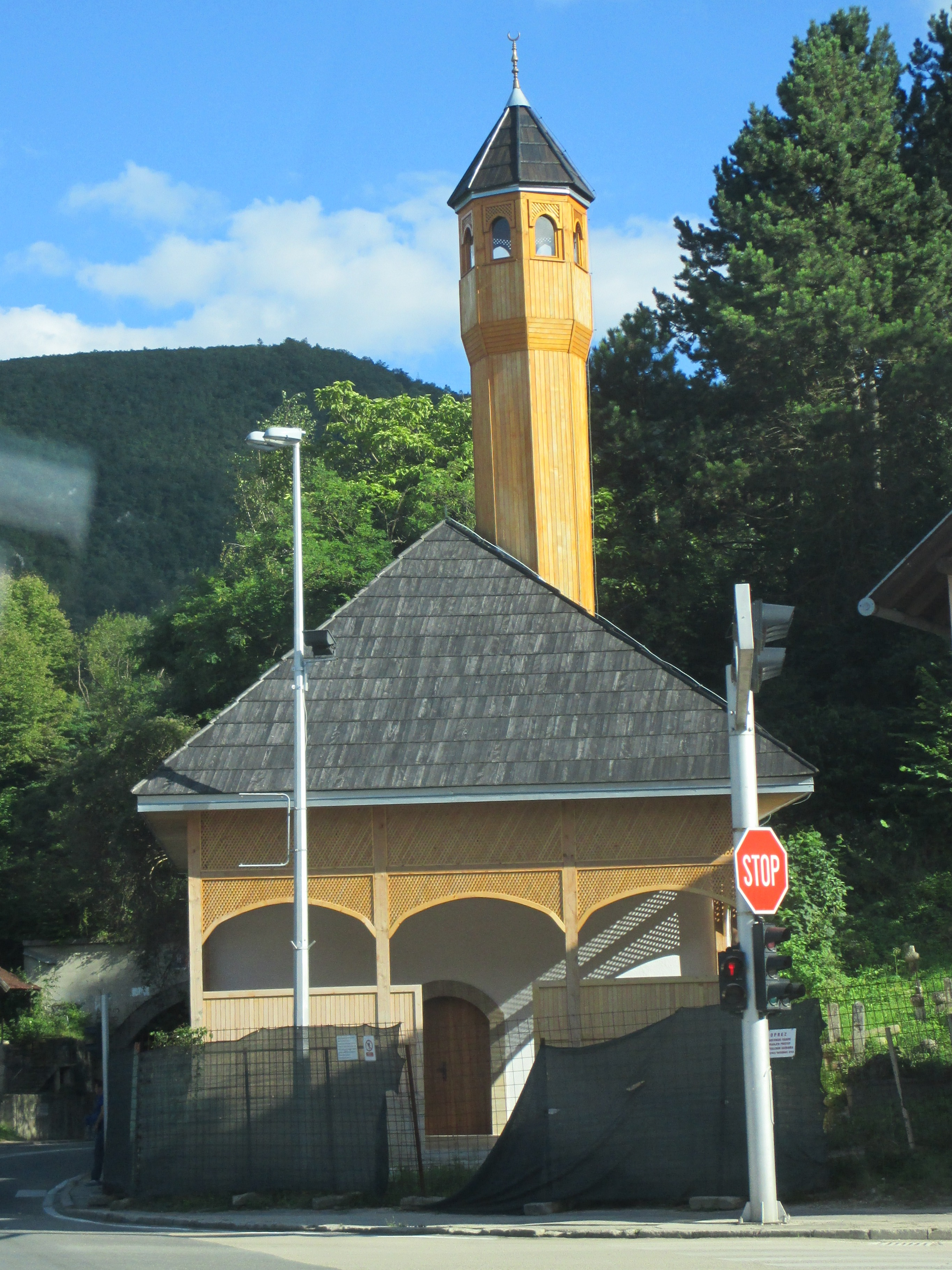 Bosnian-style Mosque with wooden minaret and front. Ramadan begova džamija, Jajce, Bosnia and Herzegovina